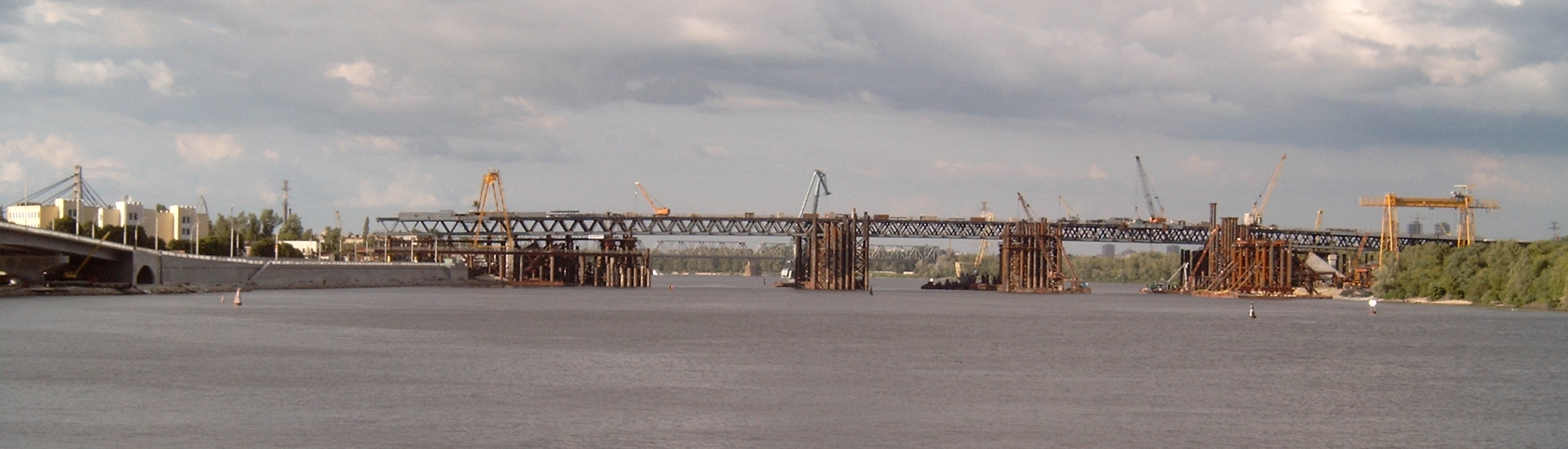 Podilskyi Metro Bridge